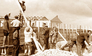 Building the stockade in Shavei Tzion.